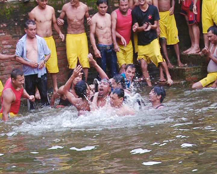 A festival celebrated in Khokana, Kathmandu.